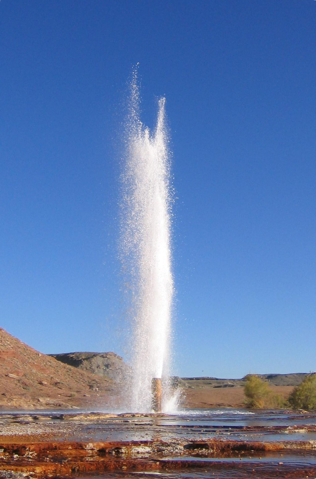 Photo taken near the peak of an eruption of Crystal Geyser on October 11, 2005.